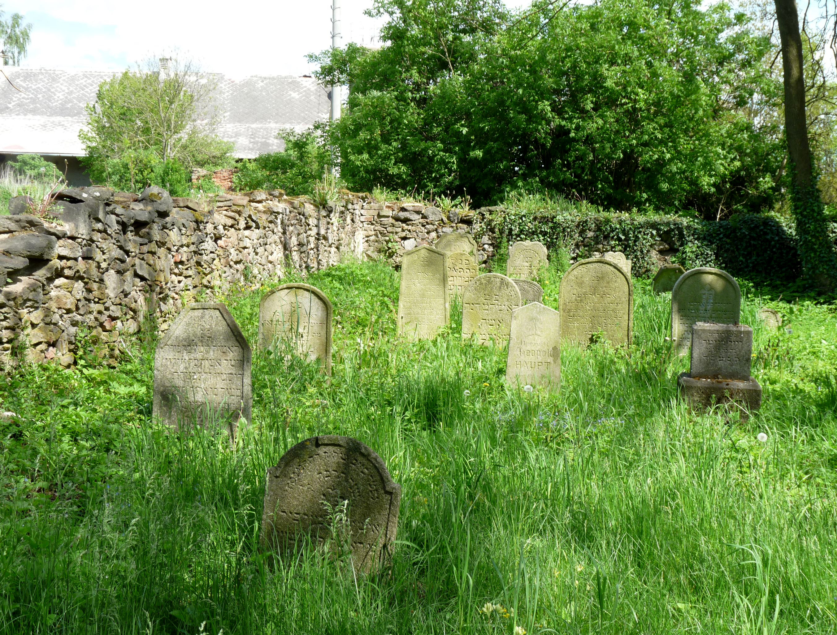 Jewish cemetery by the village of Střítež, Jihlava District, Vysočina Region, Czech Republic.